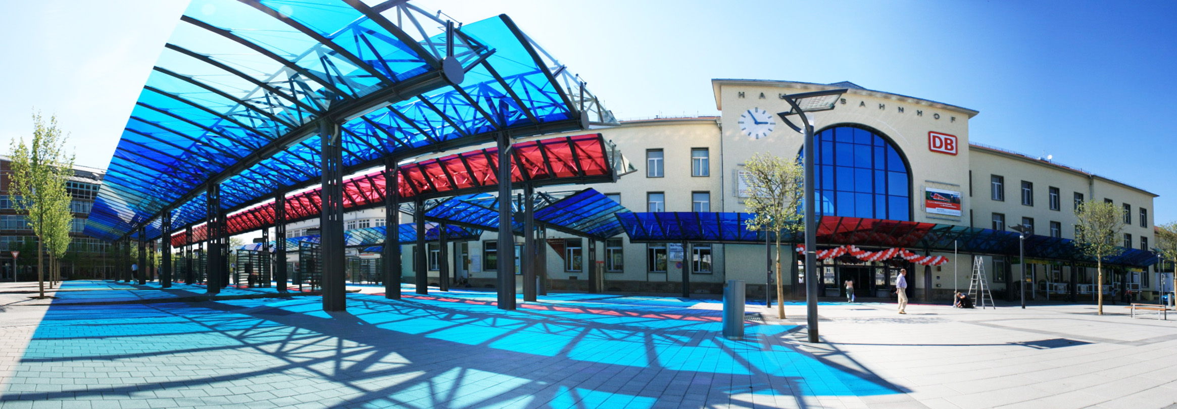 Panorama am Bahnhof Gera